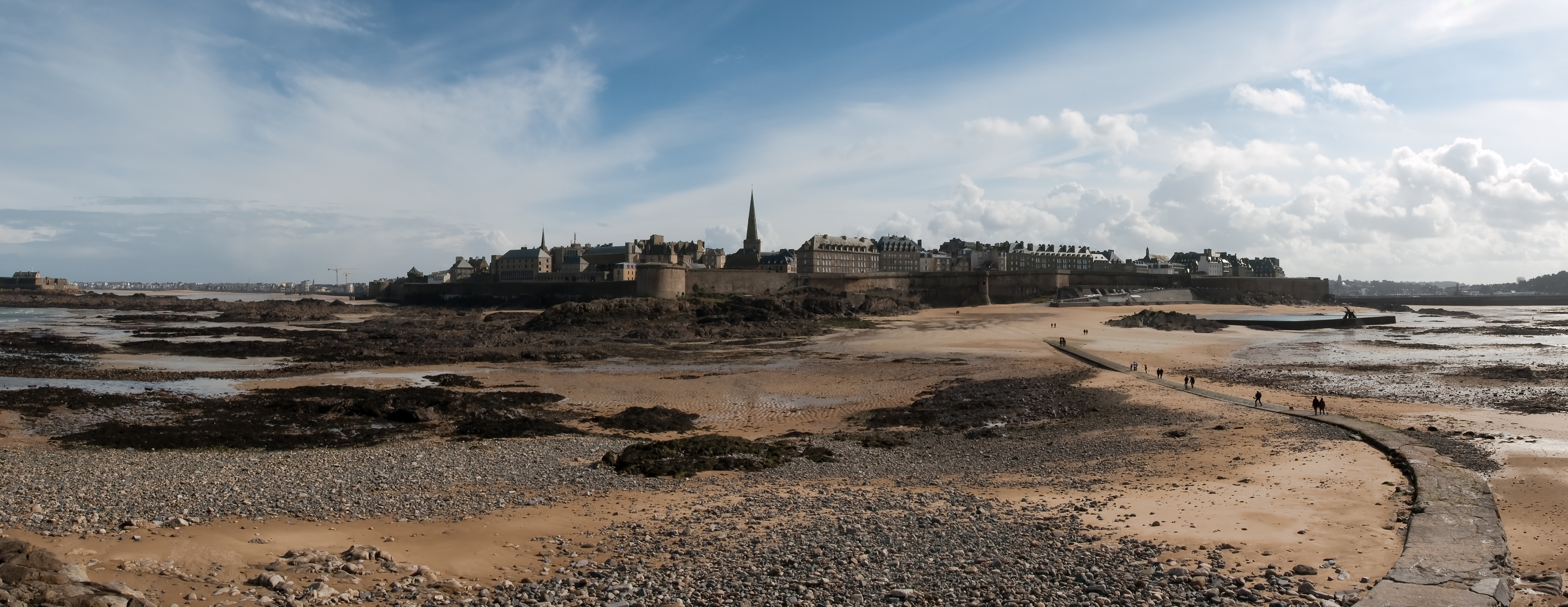 Saint-Malo, from Grand Bé Island. Spring tide.